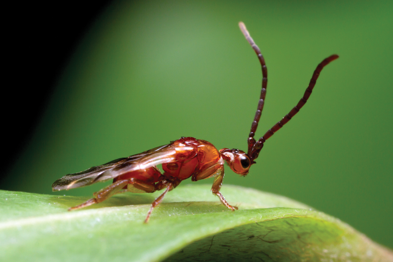 Habitus photograph of male Loboscelidia sp. in Queensland, Australia